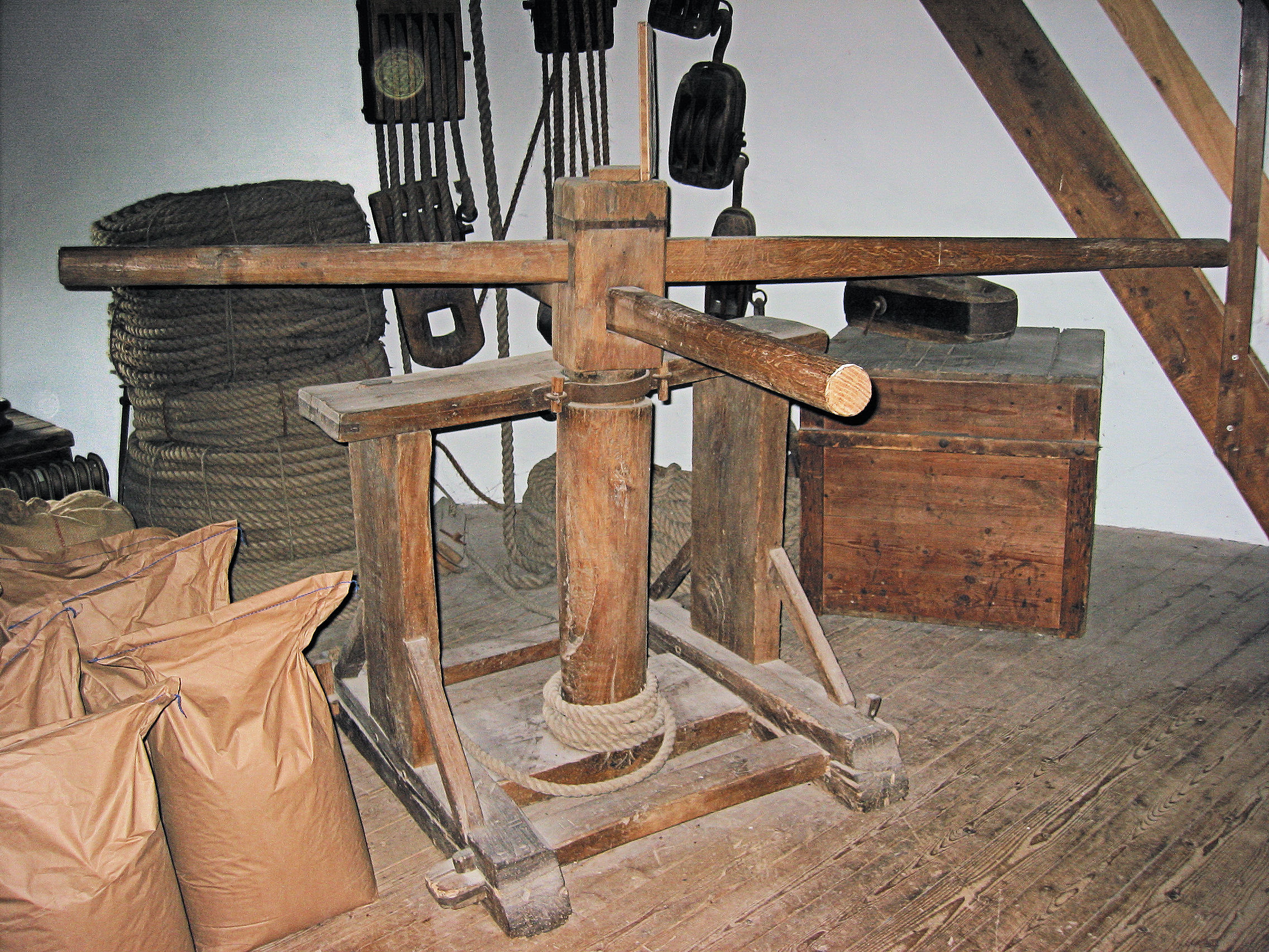 Capstan